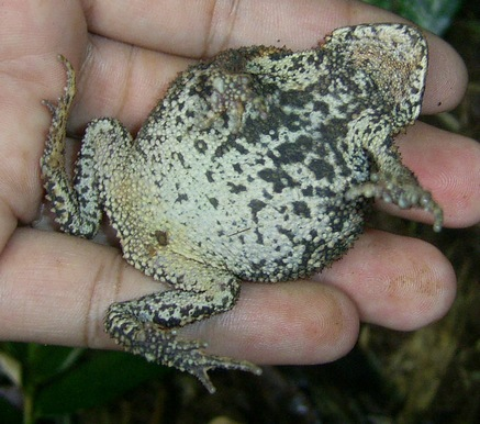 Bufo biporcatus from Situgede, Bogor, West Java, Indonesia